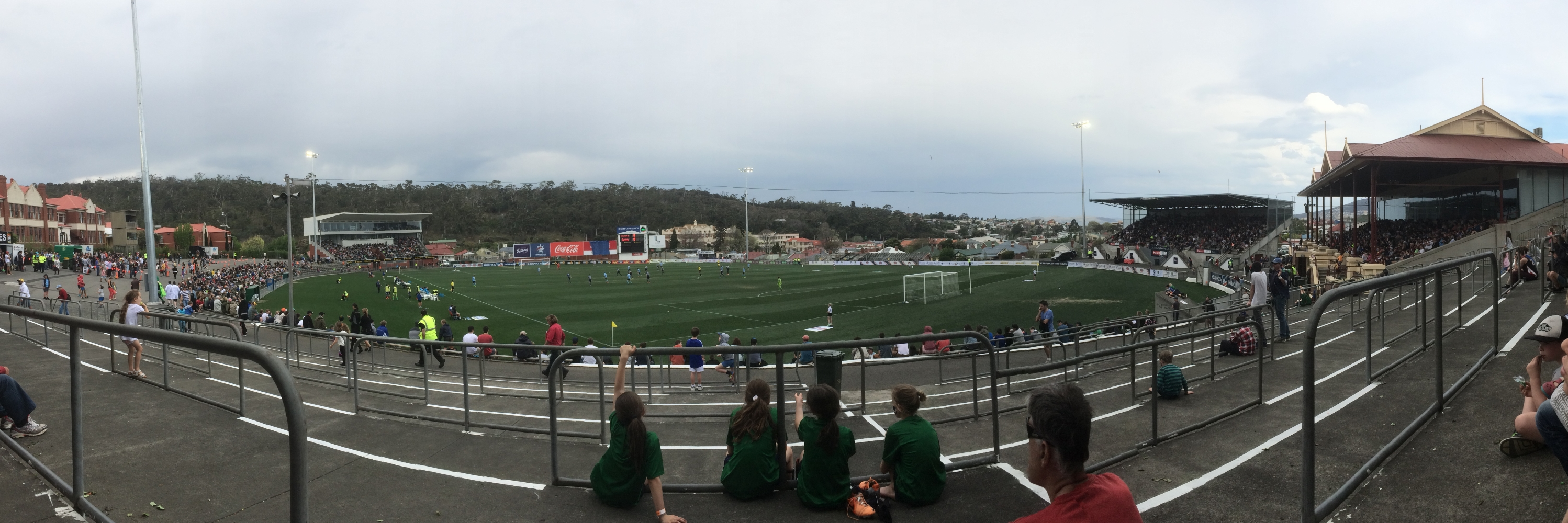 North Hobart Oval during an A-League match, September 2014.